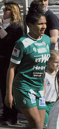 Hammarby v Mallbacken teams come out